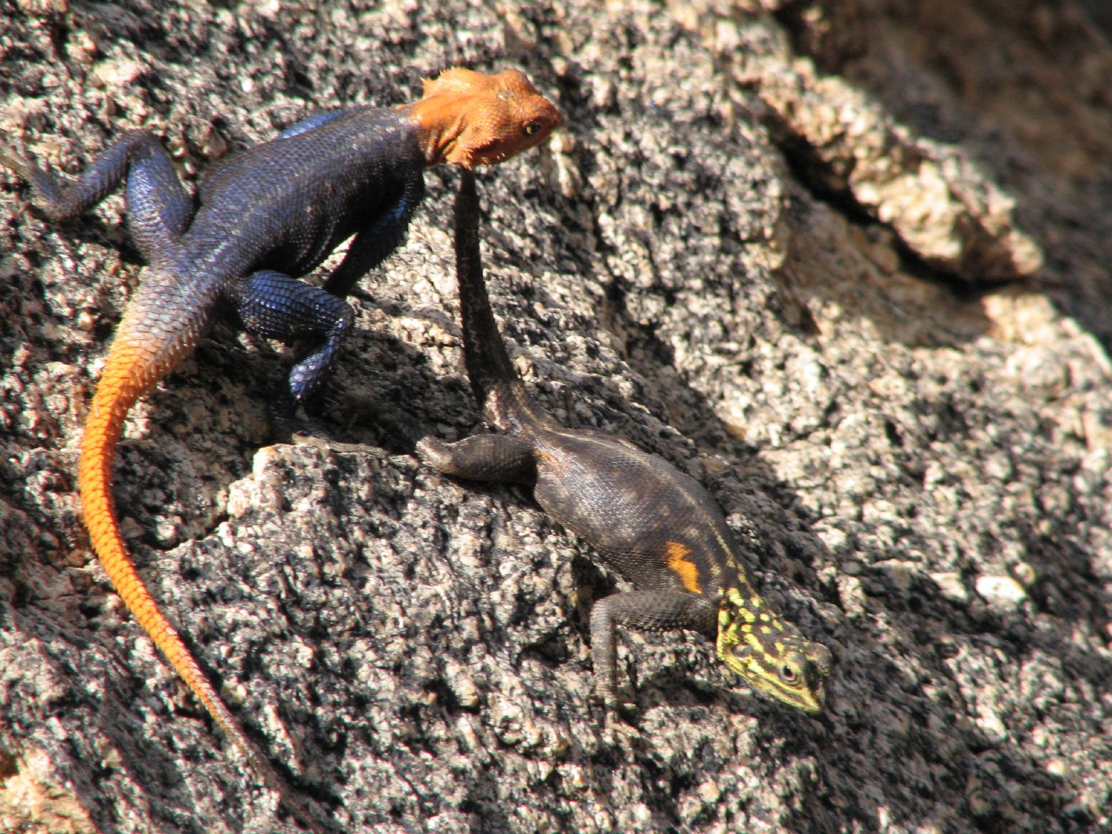 Namibian Rock Agama, Male and female (right). Agama planiceps